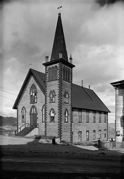 St. Paul's Episcopal Church, Virginia City, Nevada. Historic American Buildings Survey—HABS image, taken in March 1937.